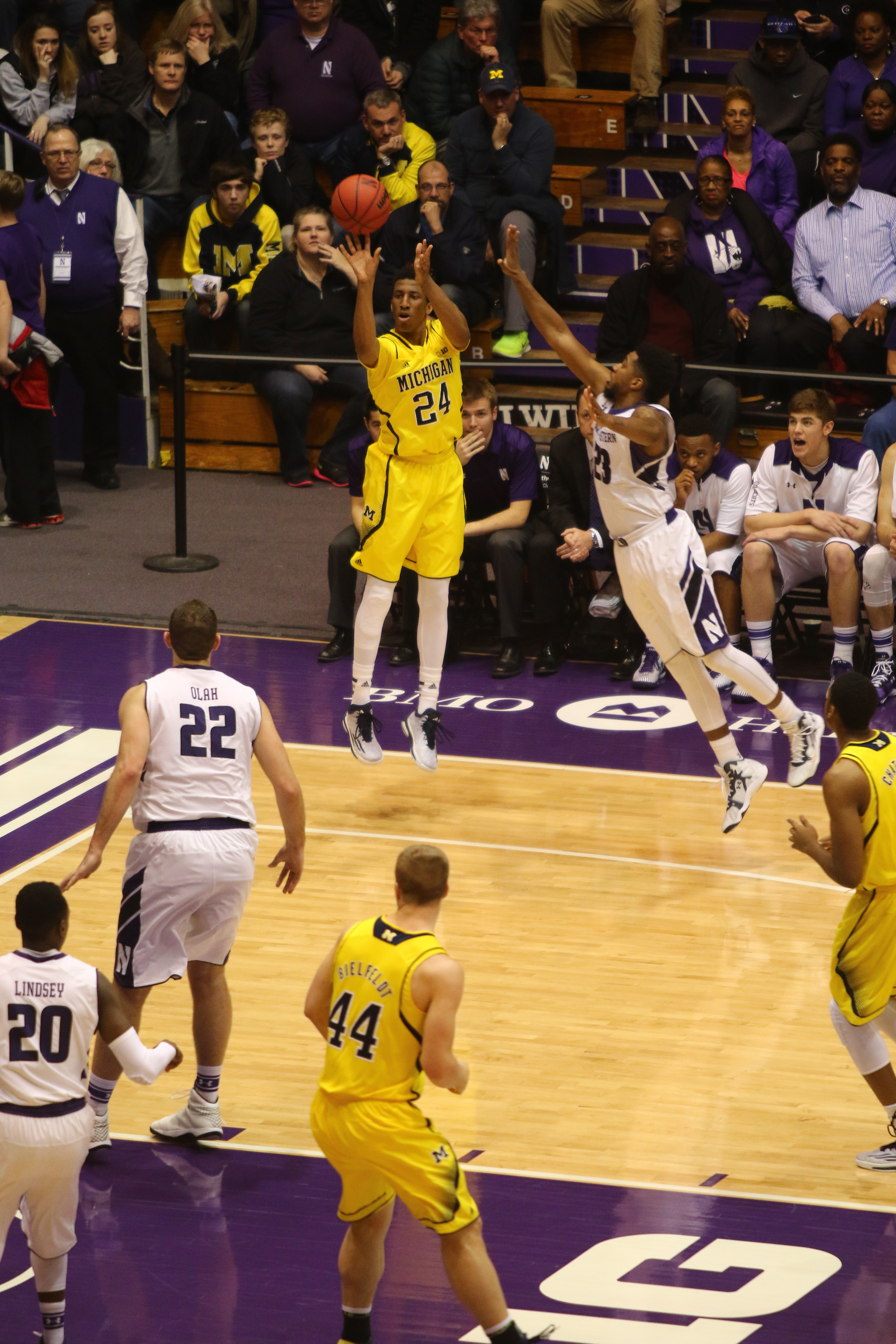 Aubrey Dawkins for the w:2014–15 Michigan Wolverines men's basketball team at Welsh-Ryan Arena